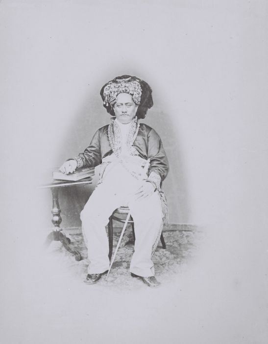 Portrait of the Sultan of Ternate, Moluccas